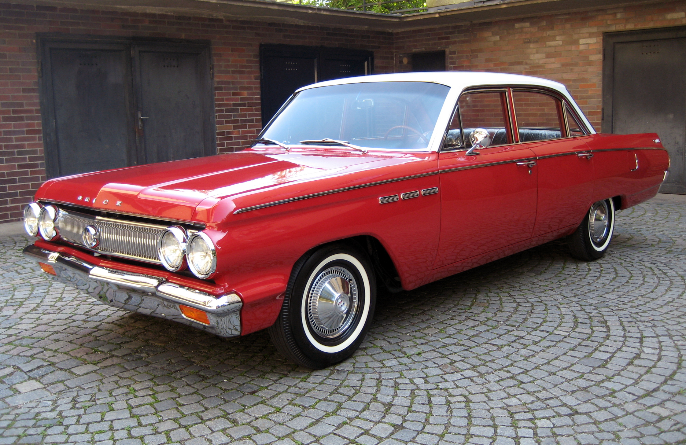 1963 Buick Special Deluxe with factory 4-speed manual transmission